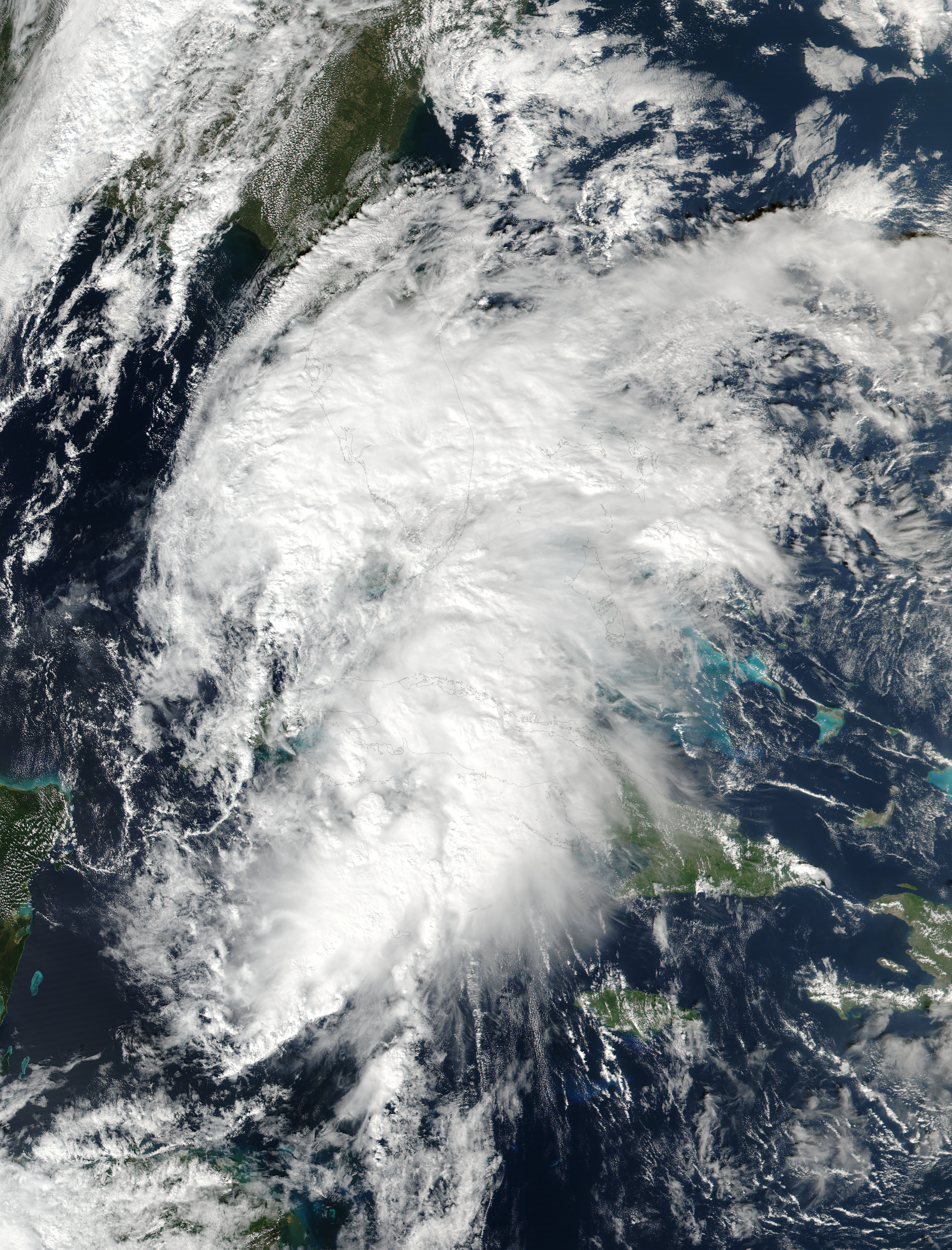 Tropical Storm Philippe (18L) over Florida, Cuba, and the Bahamas